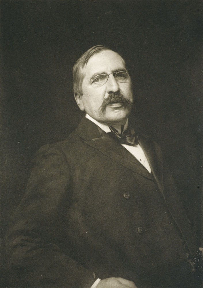 Portrait photograph of Joseph Gleeson White by Frederick Hollyer, published in Die Kunst in der Photographie, 1897. Details at